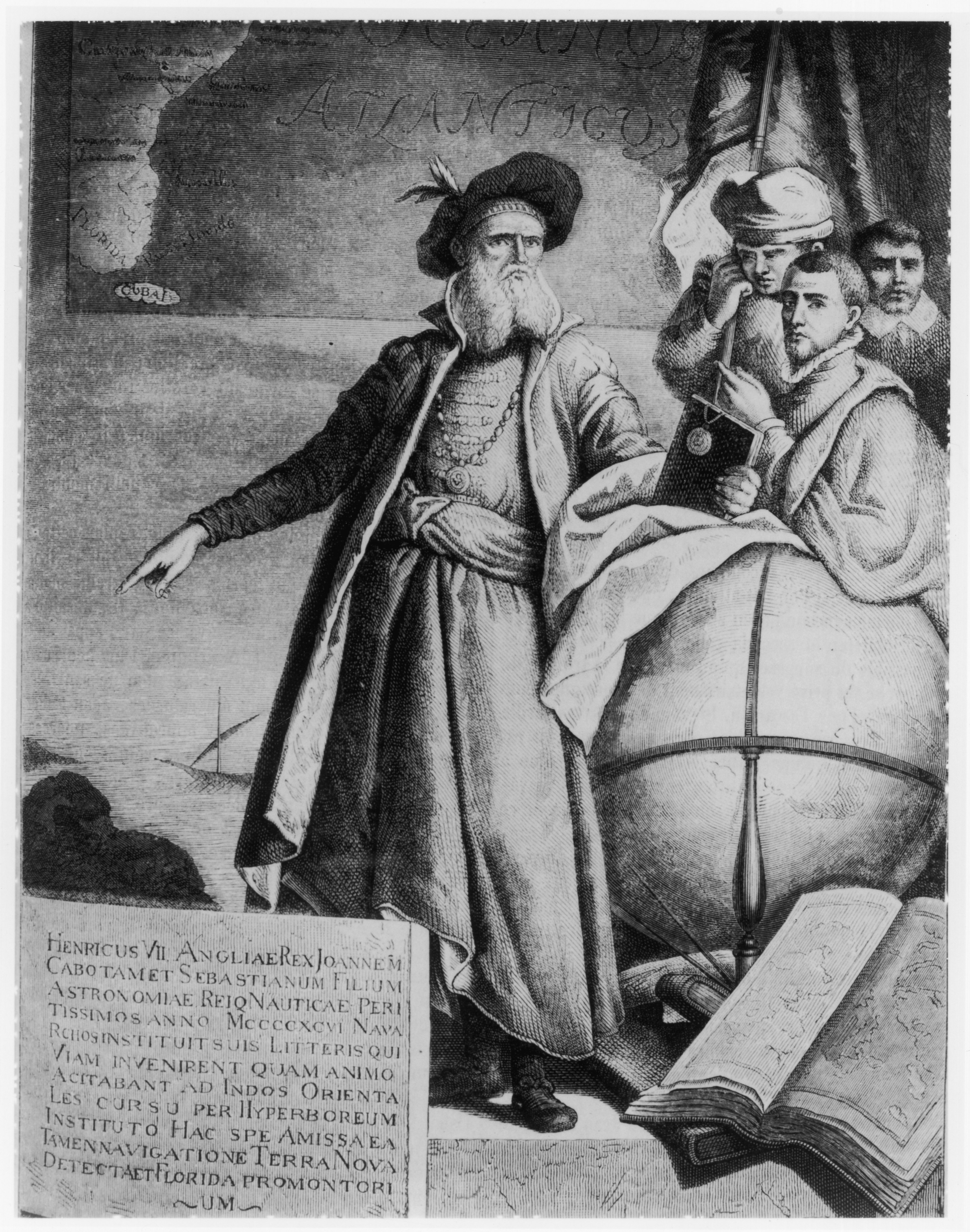 Portrait of Cabot